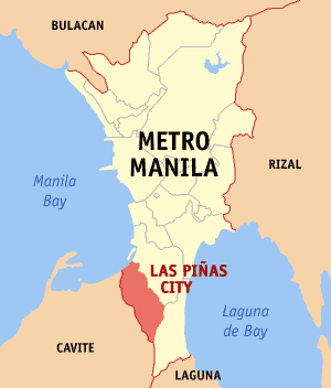 Map of Metro Manila highlighting the location of Las Piñas City, Philippines.